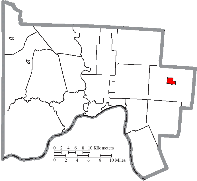 Map of the municipal and township boundaries of Scioto County, Ohio, United States, as of the 2000 census, with the location of the village of South Webster highlighted. Township borders are shown only in unincorporated areas in order to differentiate incorporated and unincorporated areas more clearly.